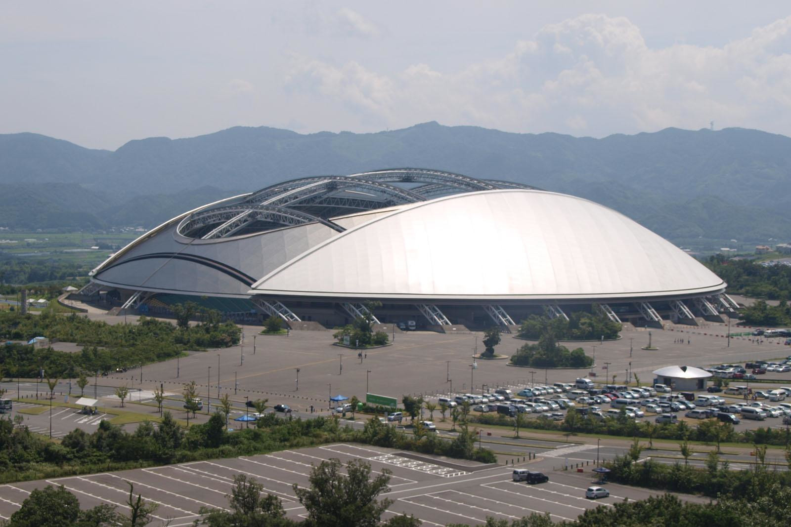 Oita Stadium, Oita City, Oita, Japan